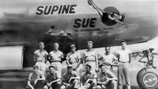 "Supine Sue" - First 500th Bomb Group B-29 to arrive on Saipan, November 1944. Names: Front Row 2nd from left S. Sgt Ivyl Enders, 3rd from Left S.Sgt Donald C. Hetrick.